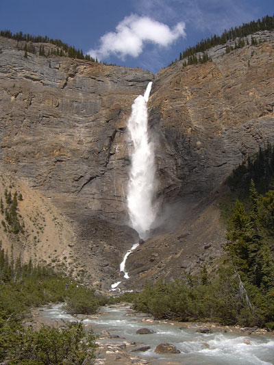 Photo of Takakkaw Falls, Yoho National Park, British Columbia, Canada, taken by David van Geyn, July 2004.